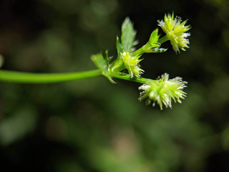 Sanicula canadensis, Canadian blacksnakeroot, flower